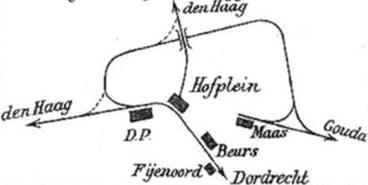 Excerpt from a map, published in 1936 by "Nederlandsche Spoorwegen", showing the historical situation at several Dutch railway stations in Rotterdam.